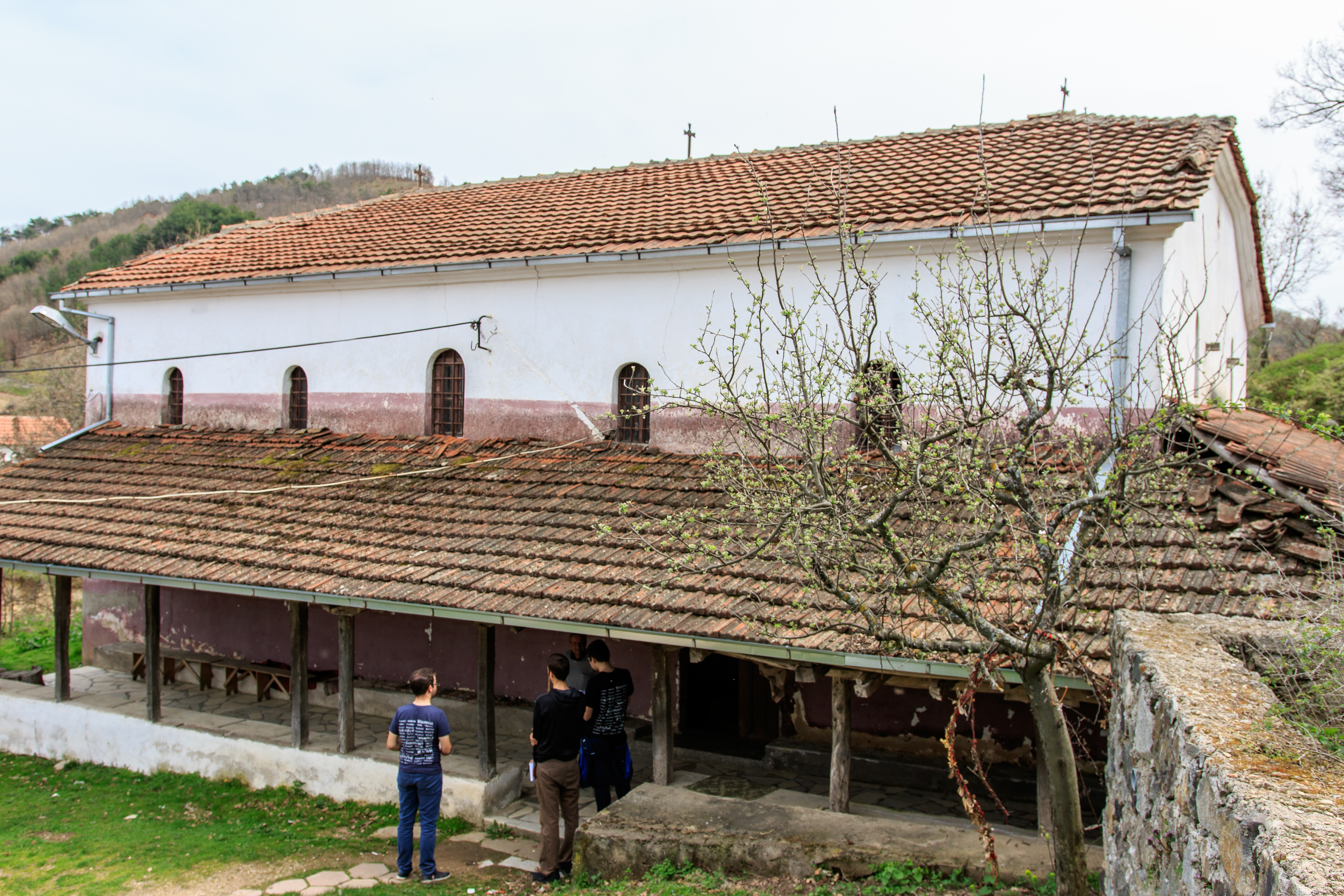 View of the St. Nicholas Church in the village Dedino